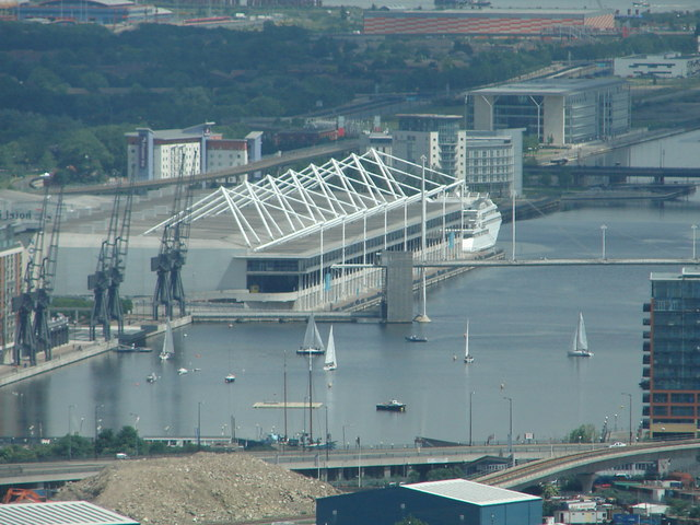 Yachting in Royal Victoria Dock